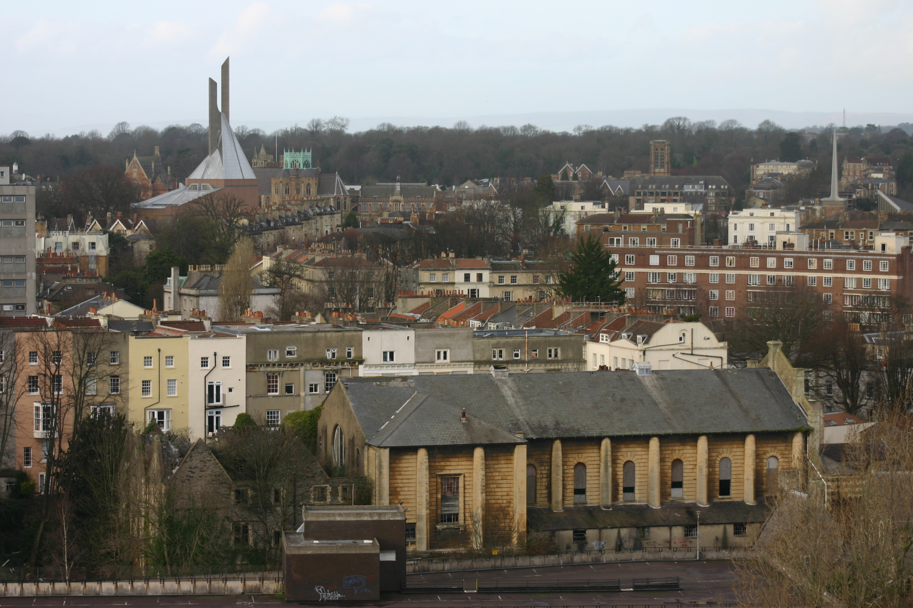 A view from Brandon Hill of the original pro-Cathedral of the Holy Apostles and its replacement, the Cathedral of SS. Peter and Paul, in Clifton, Bristol